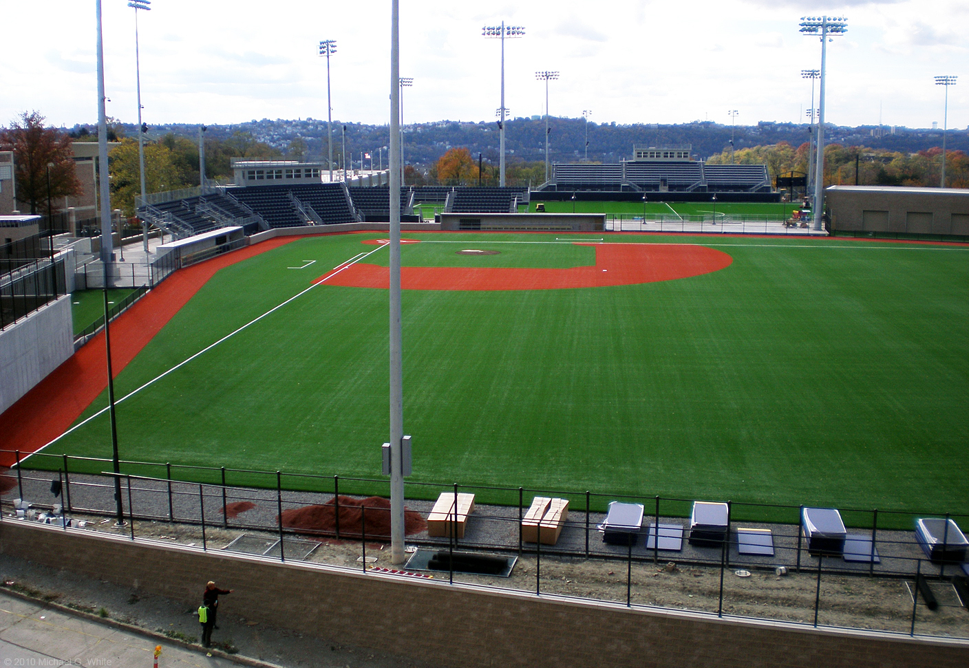 Petersen Sports Complex under construction in late October, 2010 at the University of Pittsburgh